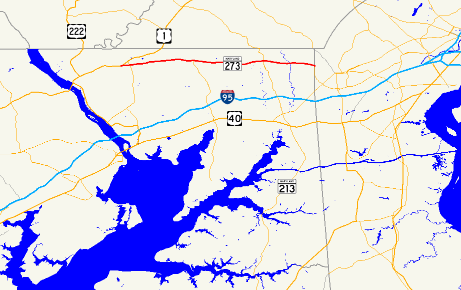 Map of Maryland Route 273